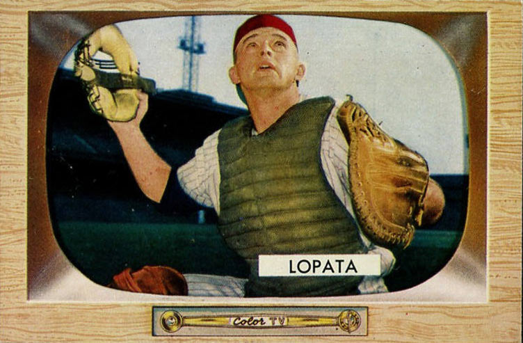 Stan Lopata with the Philadelphia Phillies in 1955